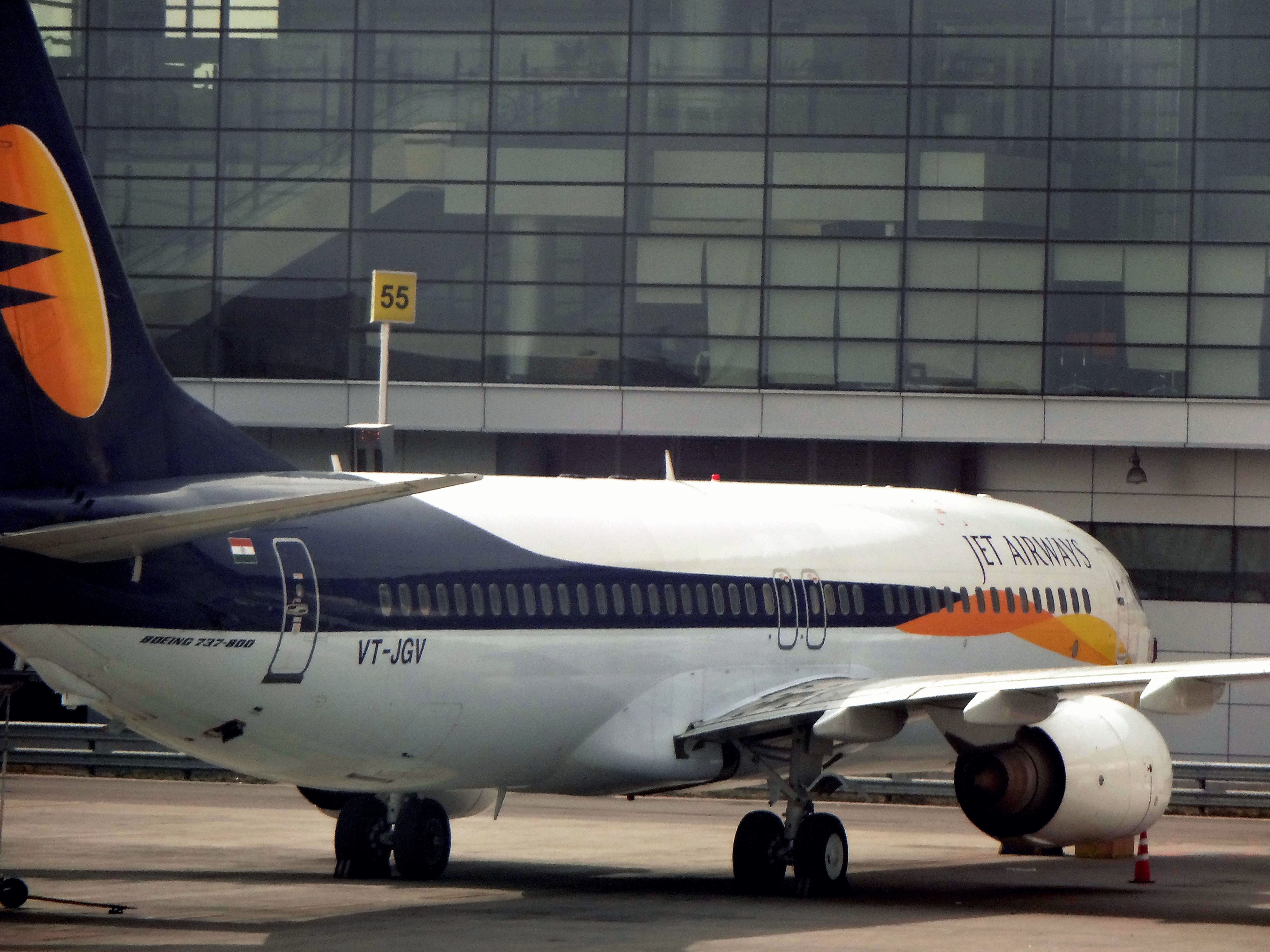 A Boeing 737-85R aircraft (VT-JGV) of Jet Airways at Rajiv Gandhi International Airport (HYD/VOHS)